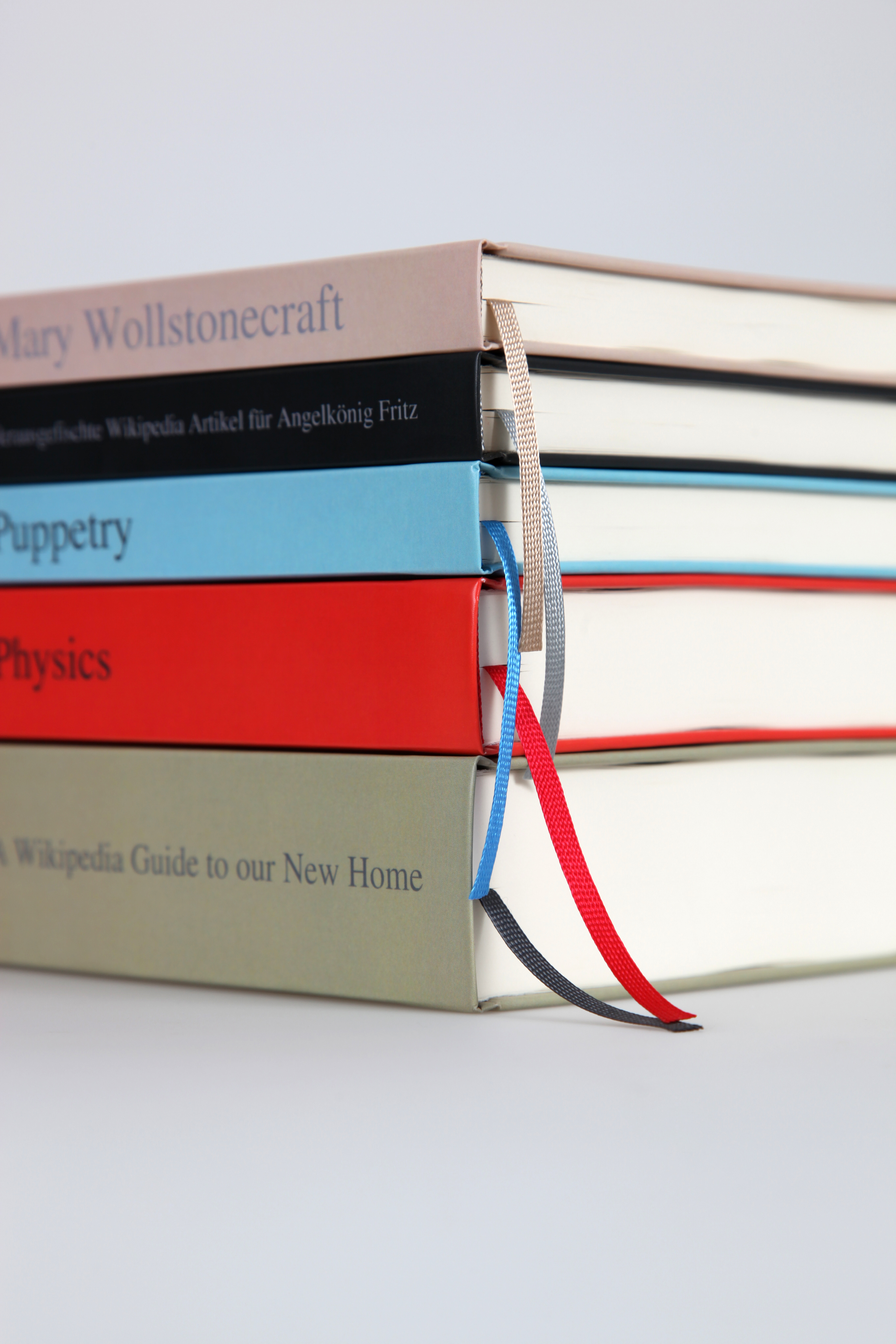 Photos of books made by PediaPress with Wikipedia content.